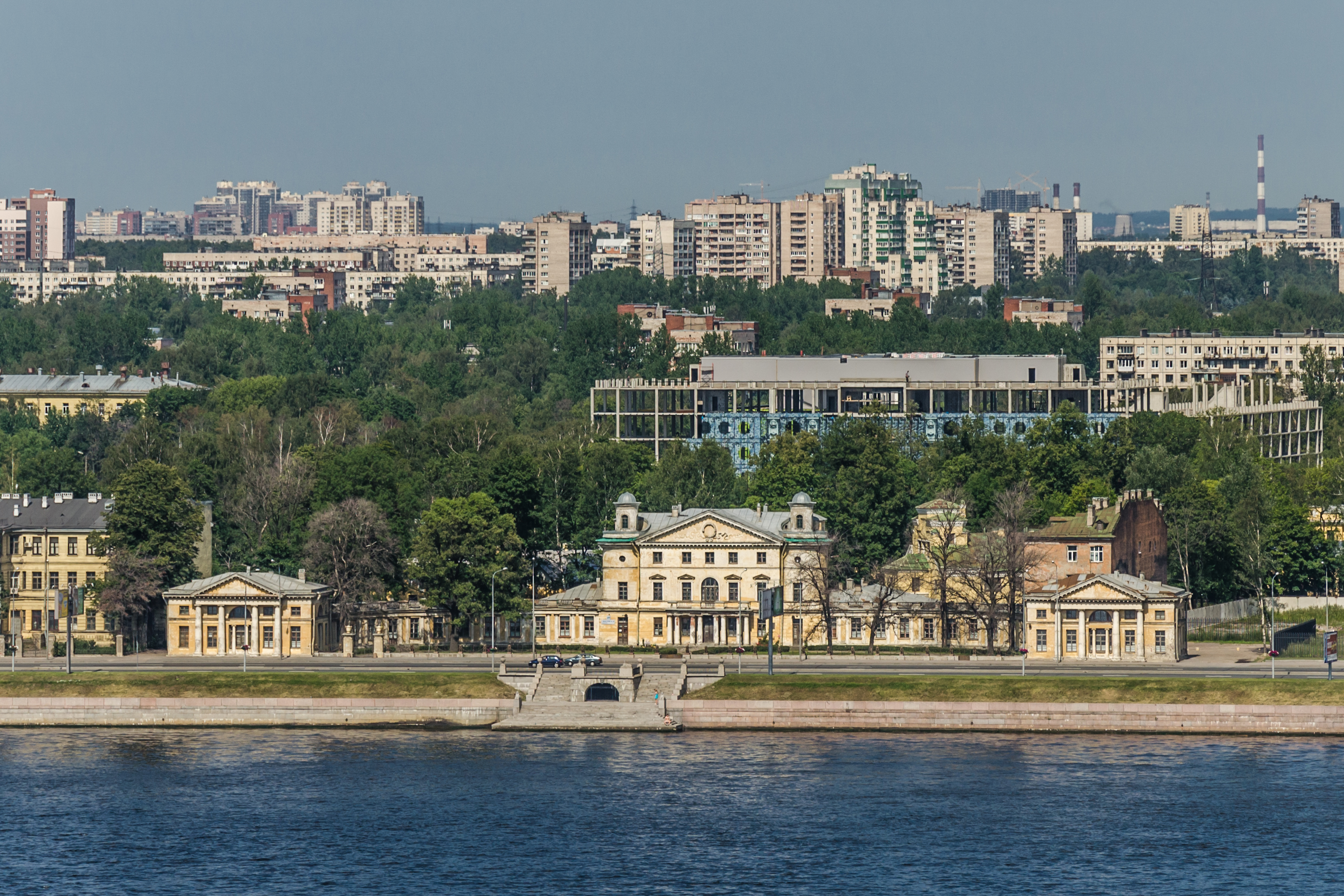 Kushelevka, Manor of the Kushelev-Bezborodko Family (40, Sverdlovskaya Embankment), Saint Petersburg. View from Smolny Cathedral.